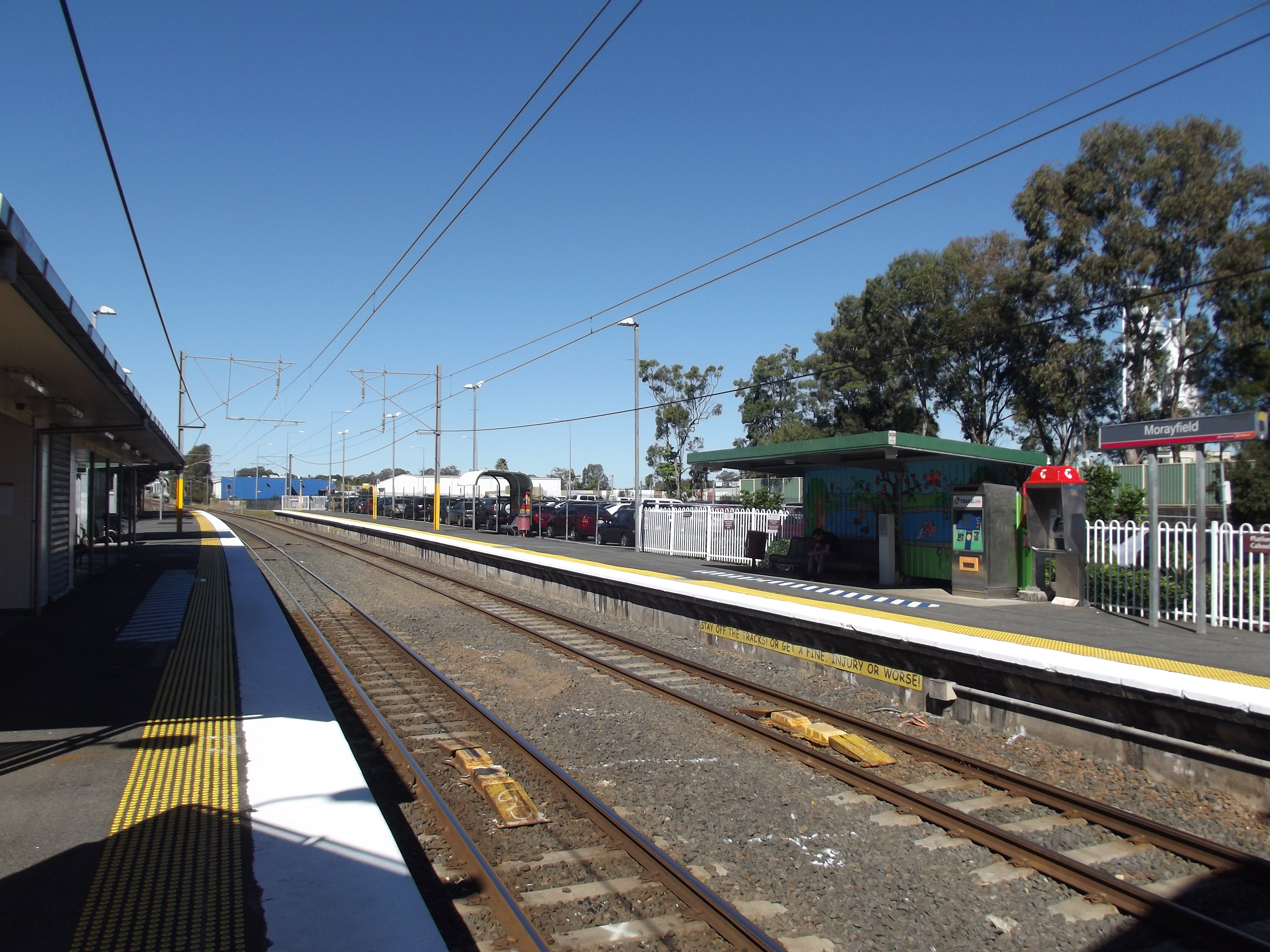 A photo of the Morayfield railway station, operated by TransLink, located in Brisbane, Australia.